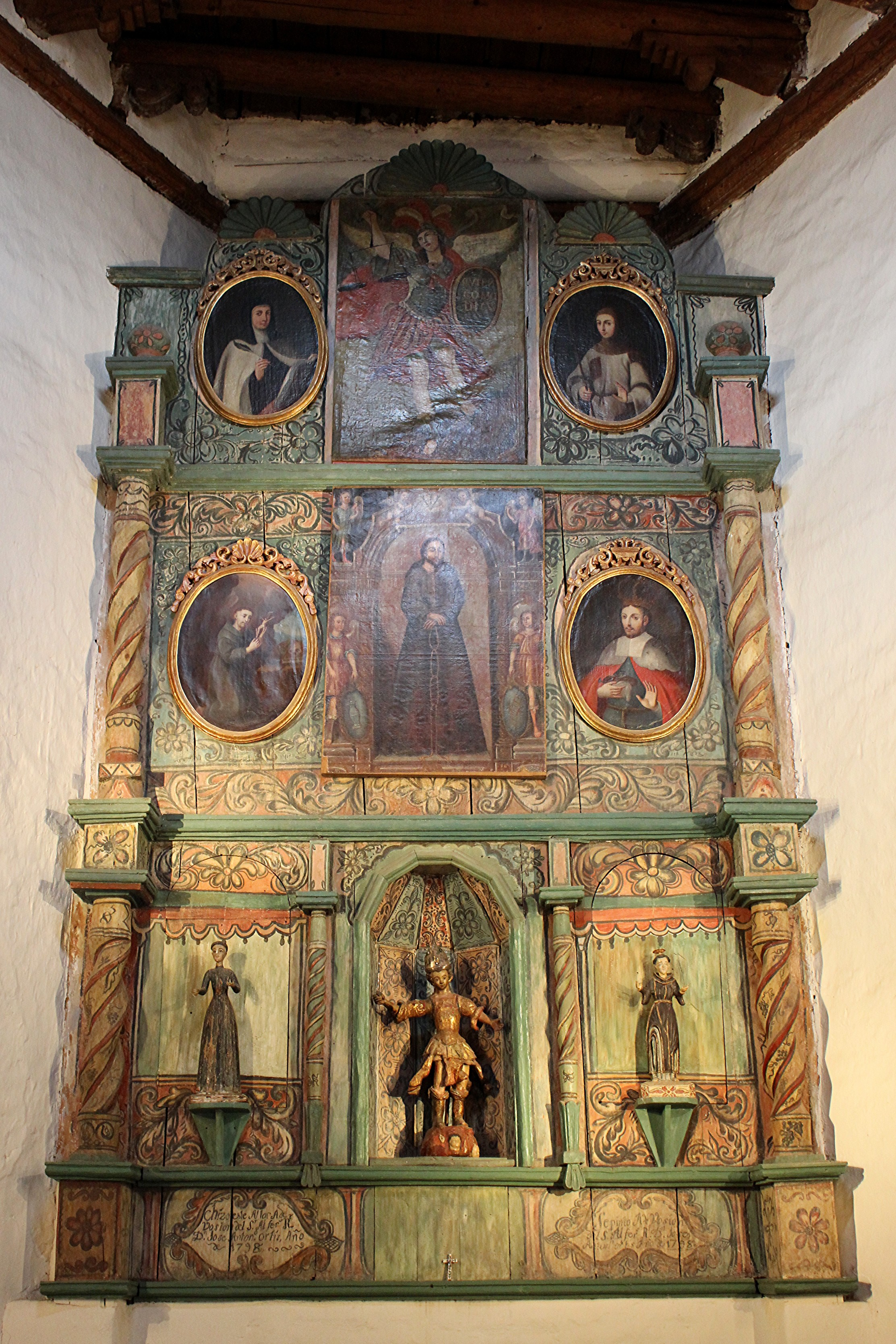 Altar (1798) of San Miguel Mission at Santa Fe, New Mexico.